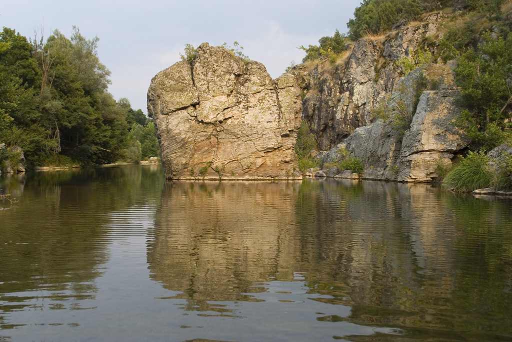 Meanders of river Byala reka, Bulgaria